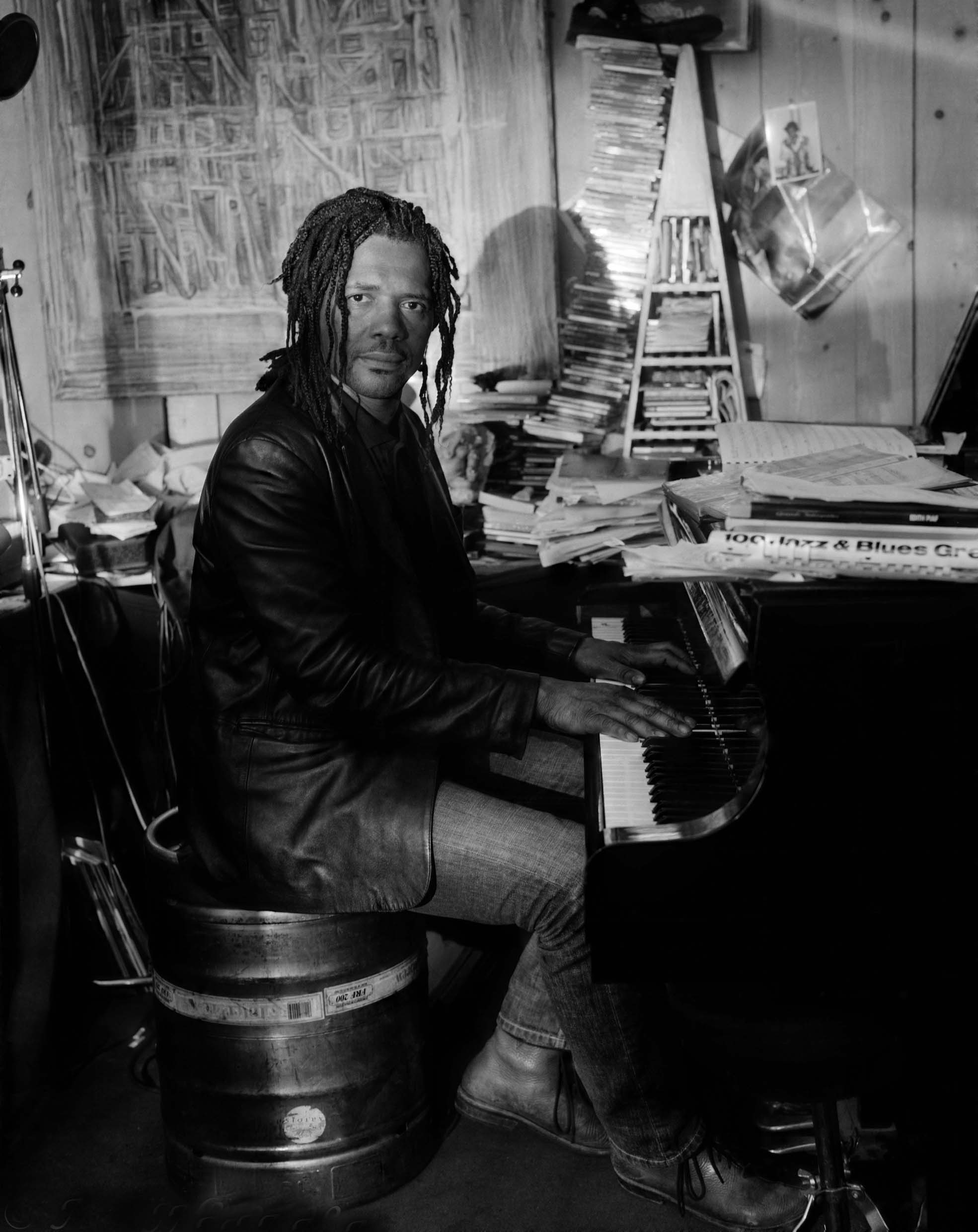 Montage Tchangodei par la photographe Anais Chaine